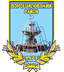 Coats of arms of Voroshilovskiy rayon